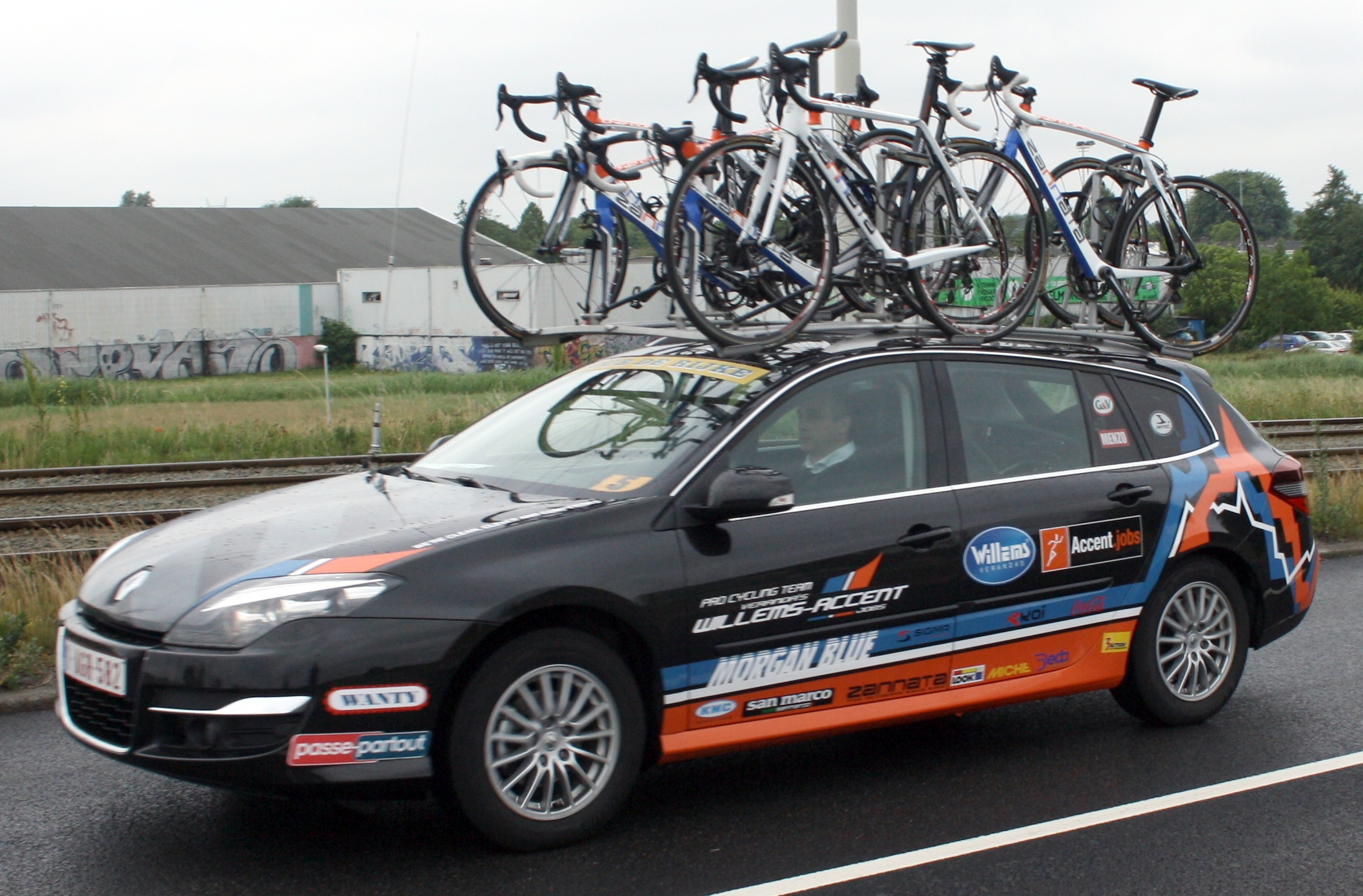 Veranda's Willems Accent team car at the 2011 Tour de Rijke